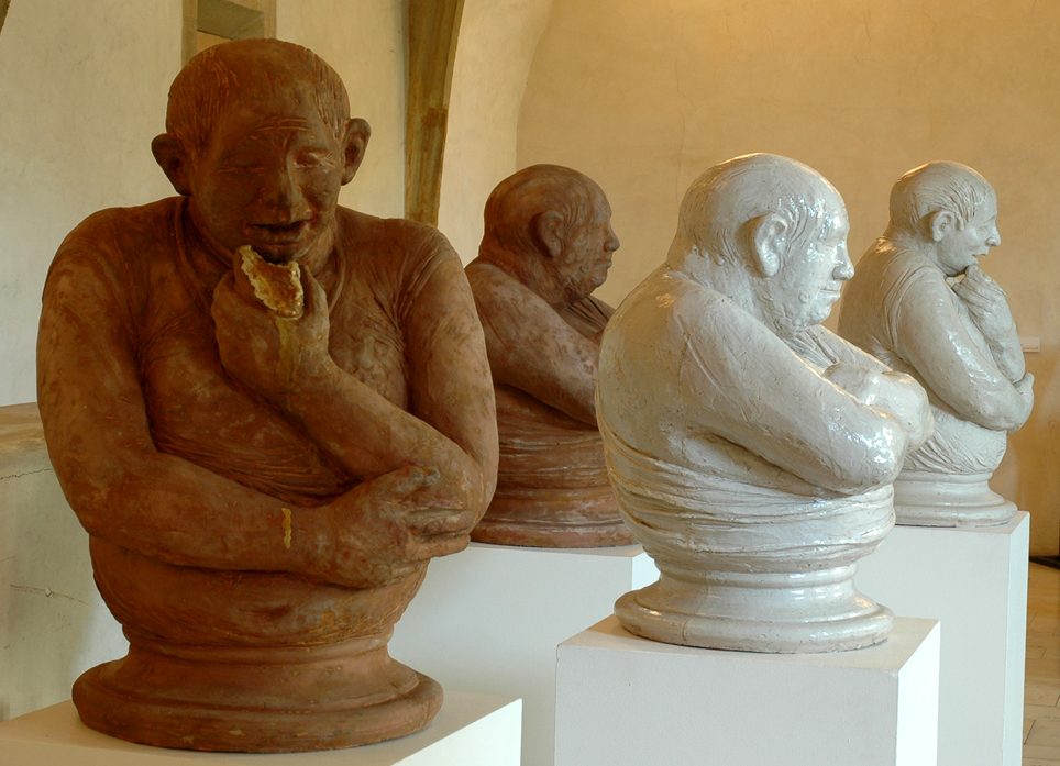 Sculptures "Chess" (1986/87), rough and glazed burnt clay, author: Bohumil Zemánek